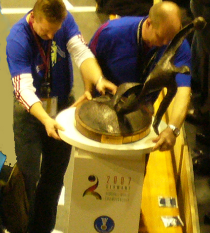 The cup presented to the winners of the 2007 Men's Handball World Championship